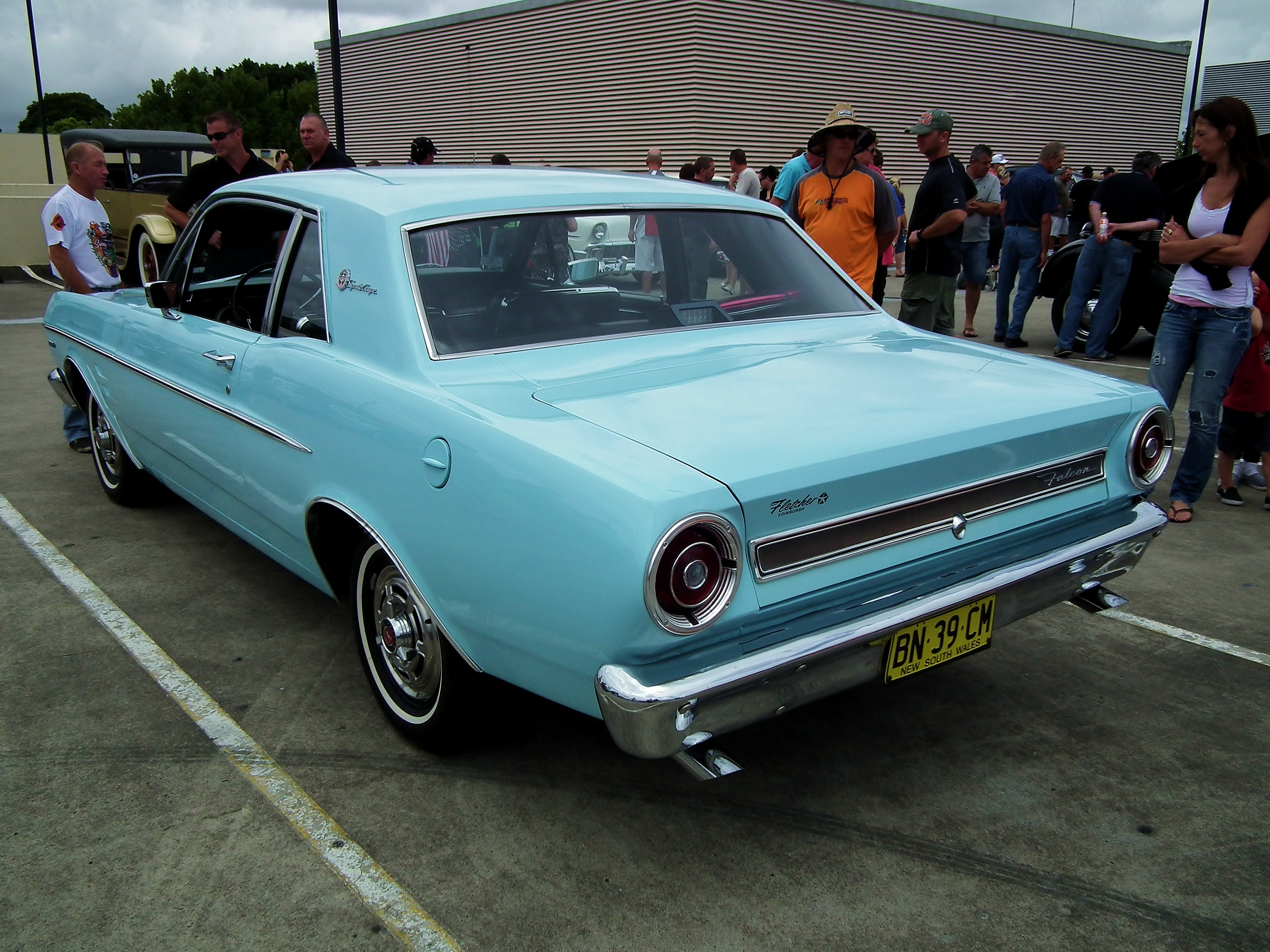 1967 Ford Falcon Futura Sports Coupe. Taken at the 2012 New South Wales All American Day, held at Castle Towers Shopping Centre, Castle Hill, Sydney.